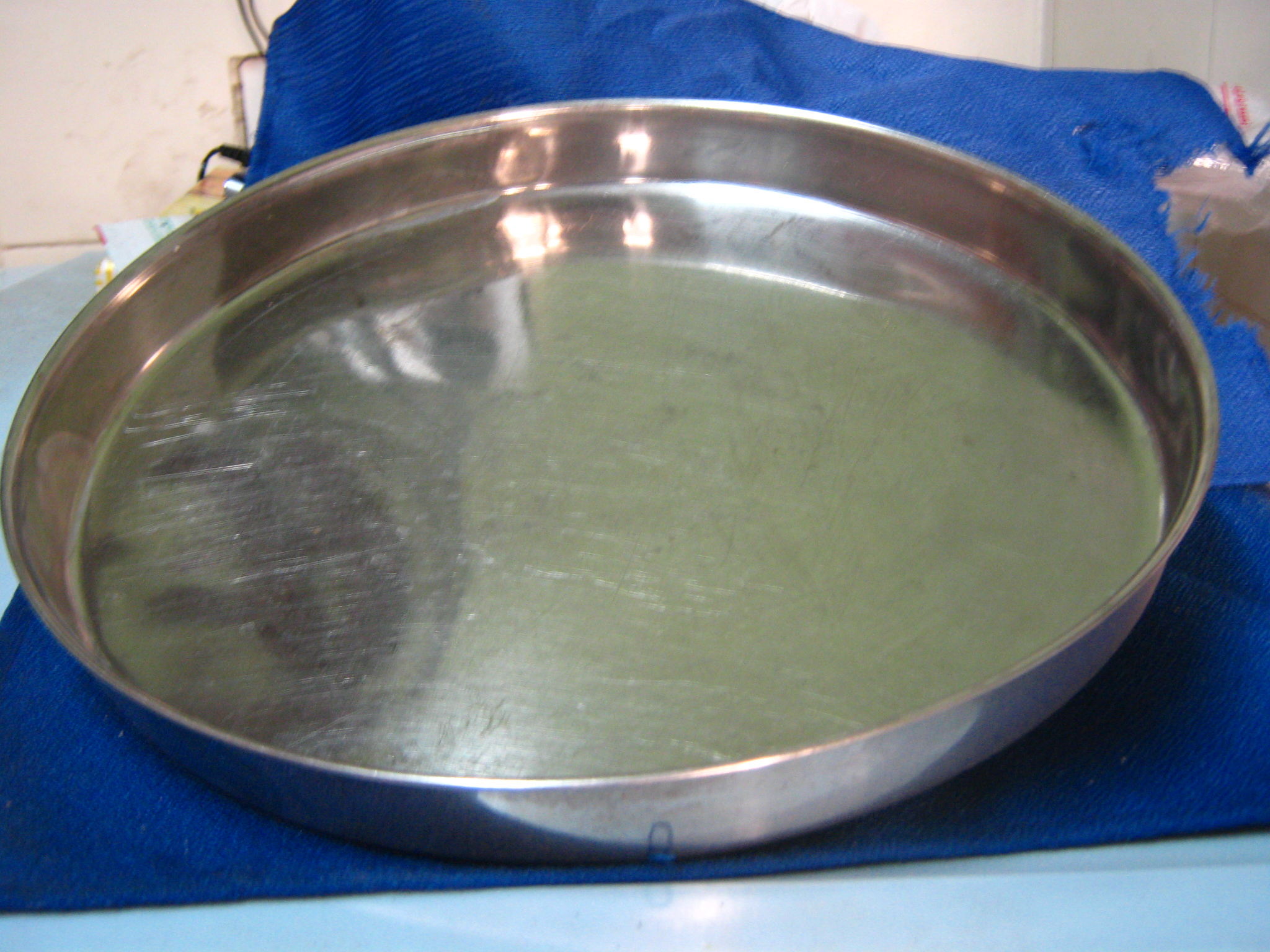 Utensil used in indian kitchen food preparations.